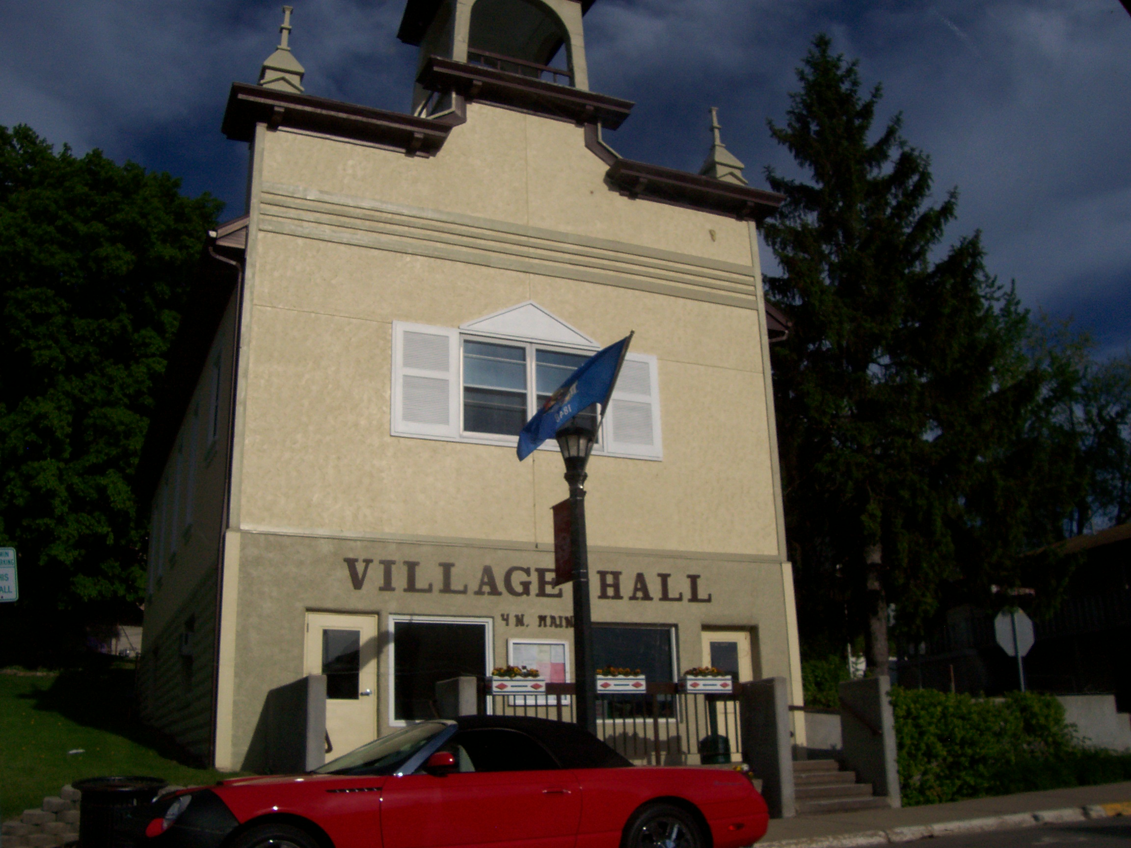 Looking east at the Deerfield, Wisconsin city hall while traveling on Wisconsin Highway 73.